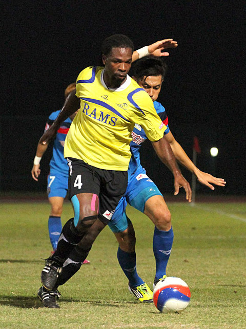 Fabien Lewis (in yellow strip) in action for Woodlands Wellington in a S.League match against SAFFC on 13th September 2012.